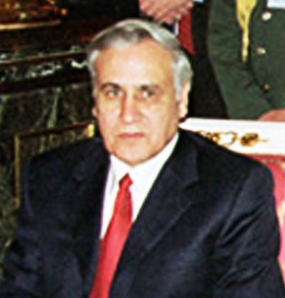 THE KREMLIN, MOSCOW. President Putin with Israeli President Moshe Katsav at a joint news conference after the Russian-Israeli talks.